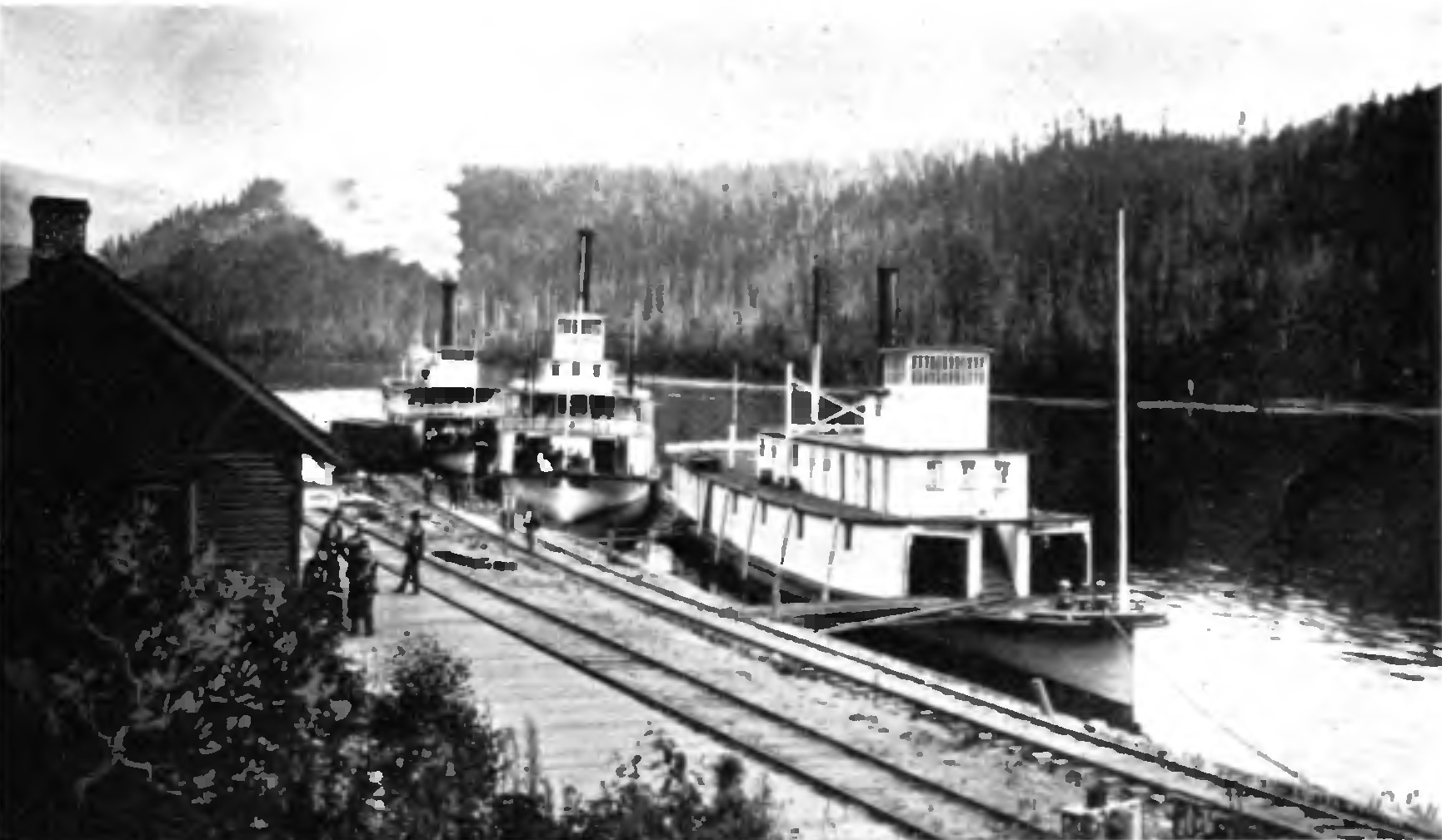 photograph of Lytton, Columbia, and Kootenai(L to R) sternwheel steamboats, at Robson, British Columbia